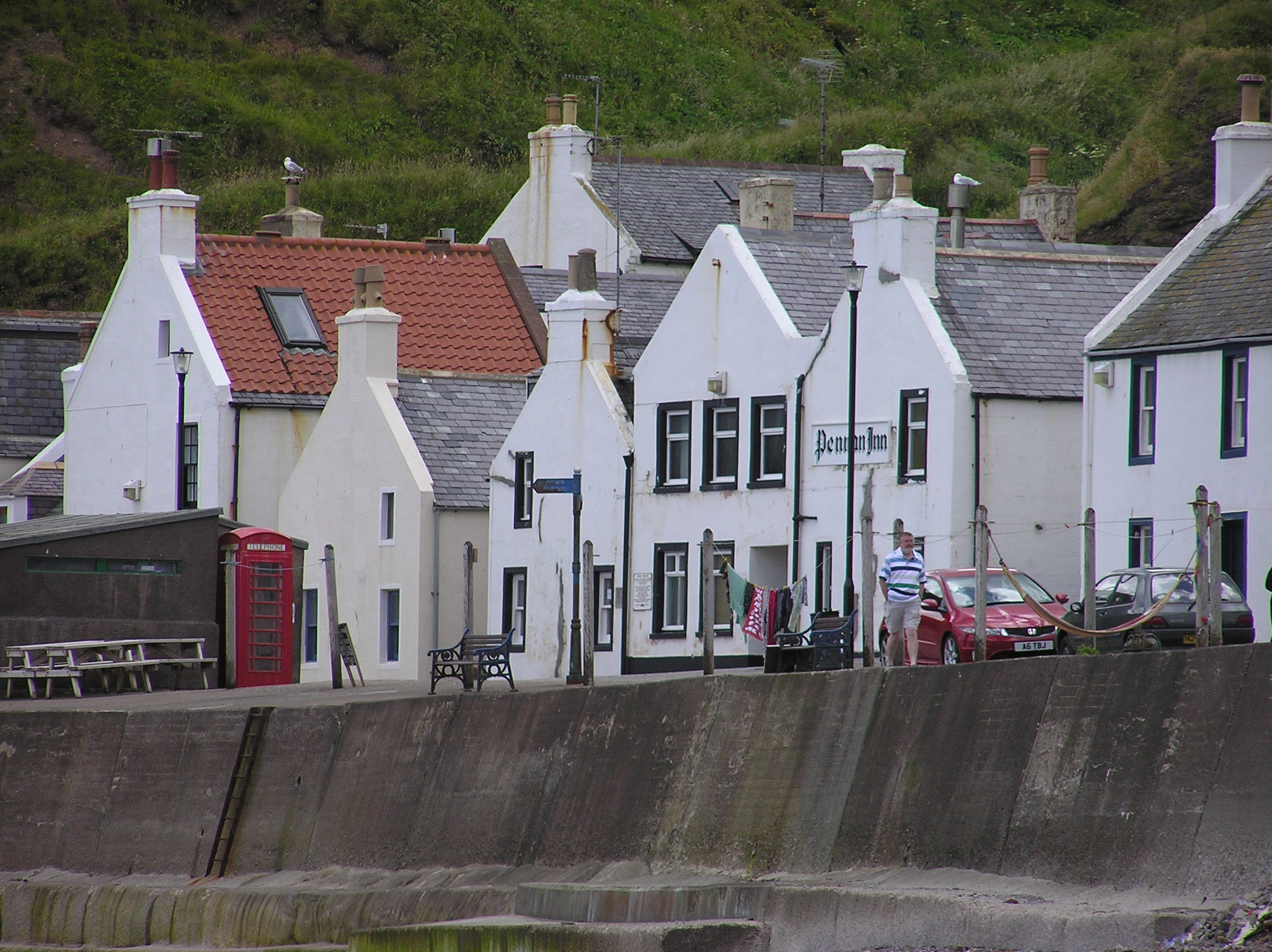 Pennan village. The red phone box placed in the village as a tribute to the film Local Hero is on the left.